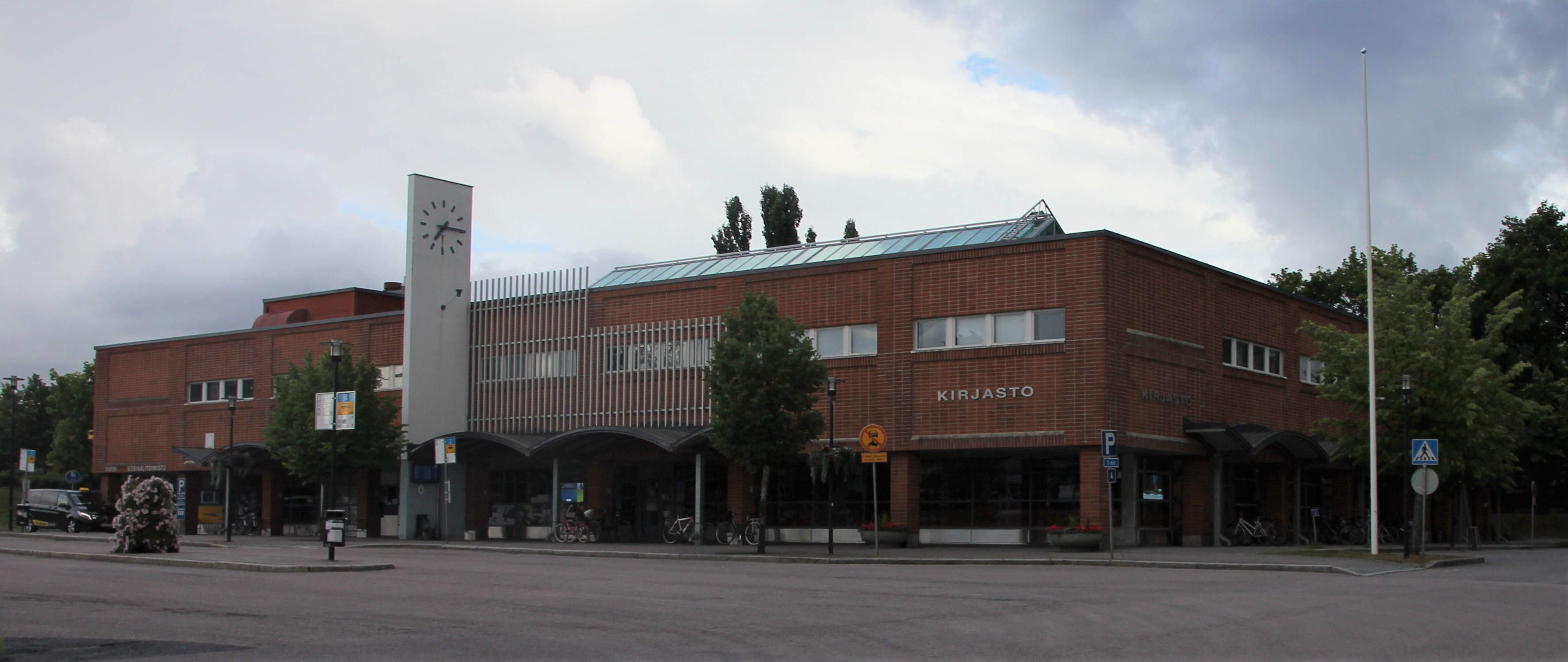 Tuusula Main Library is the main library of Tuusula Municipal Library. It has street address Autoasemankatu 2, which is located in Hyrylä, Tuusula, Finland. Photo was taken 2019-07-02.